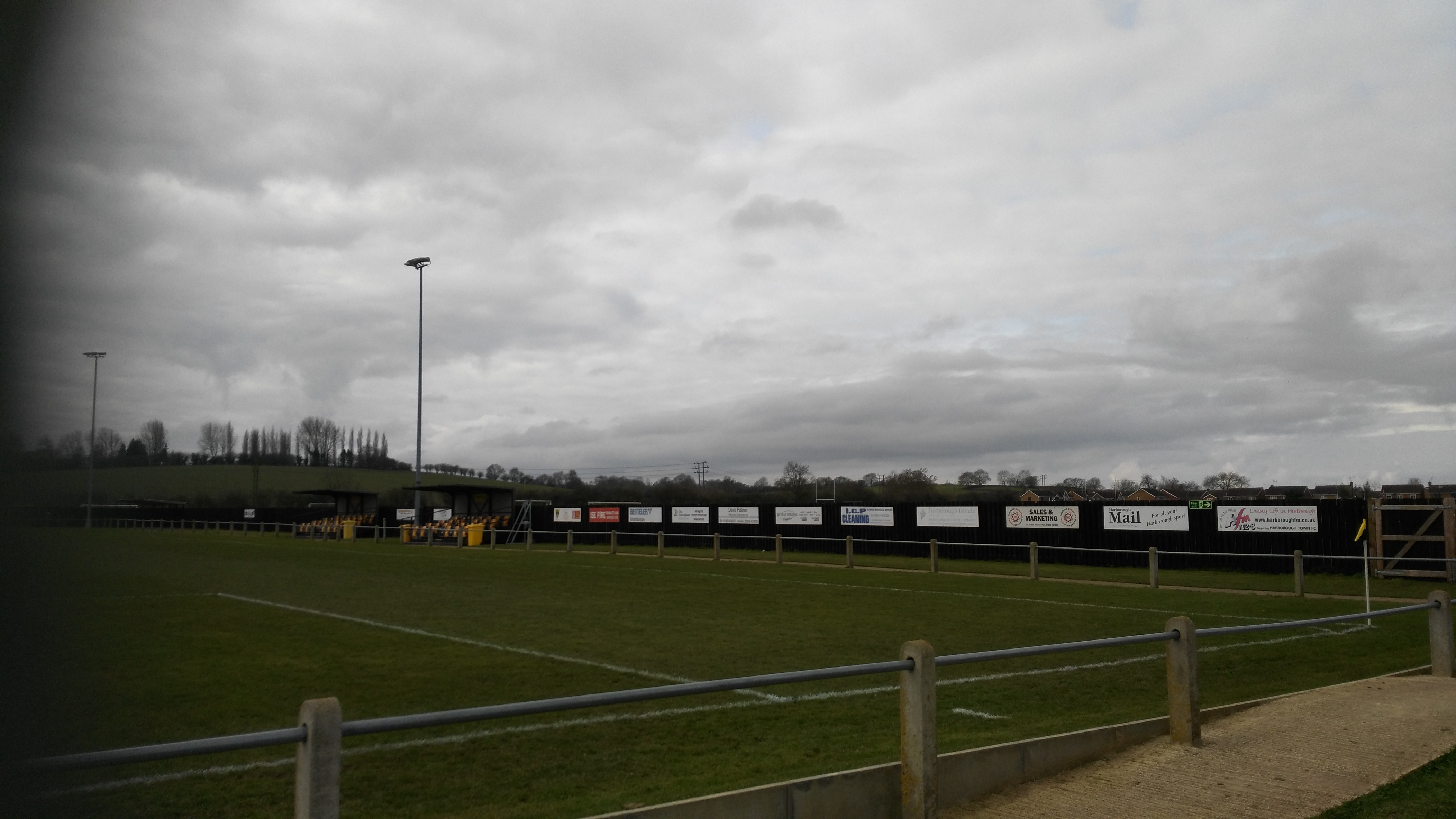 harborough town fc main stand side with two arena style stands